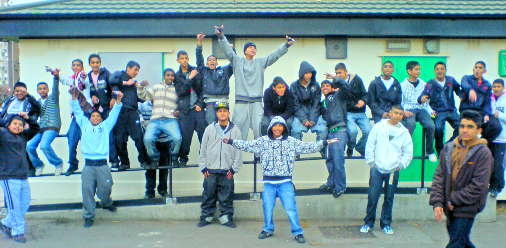 Globe Town Massive, a Bangladeshi youth gang in Bethnal Green, Tower hamlets, London, England. (cropped version of the image)